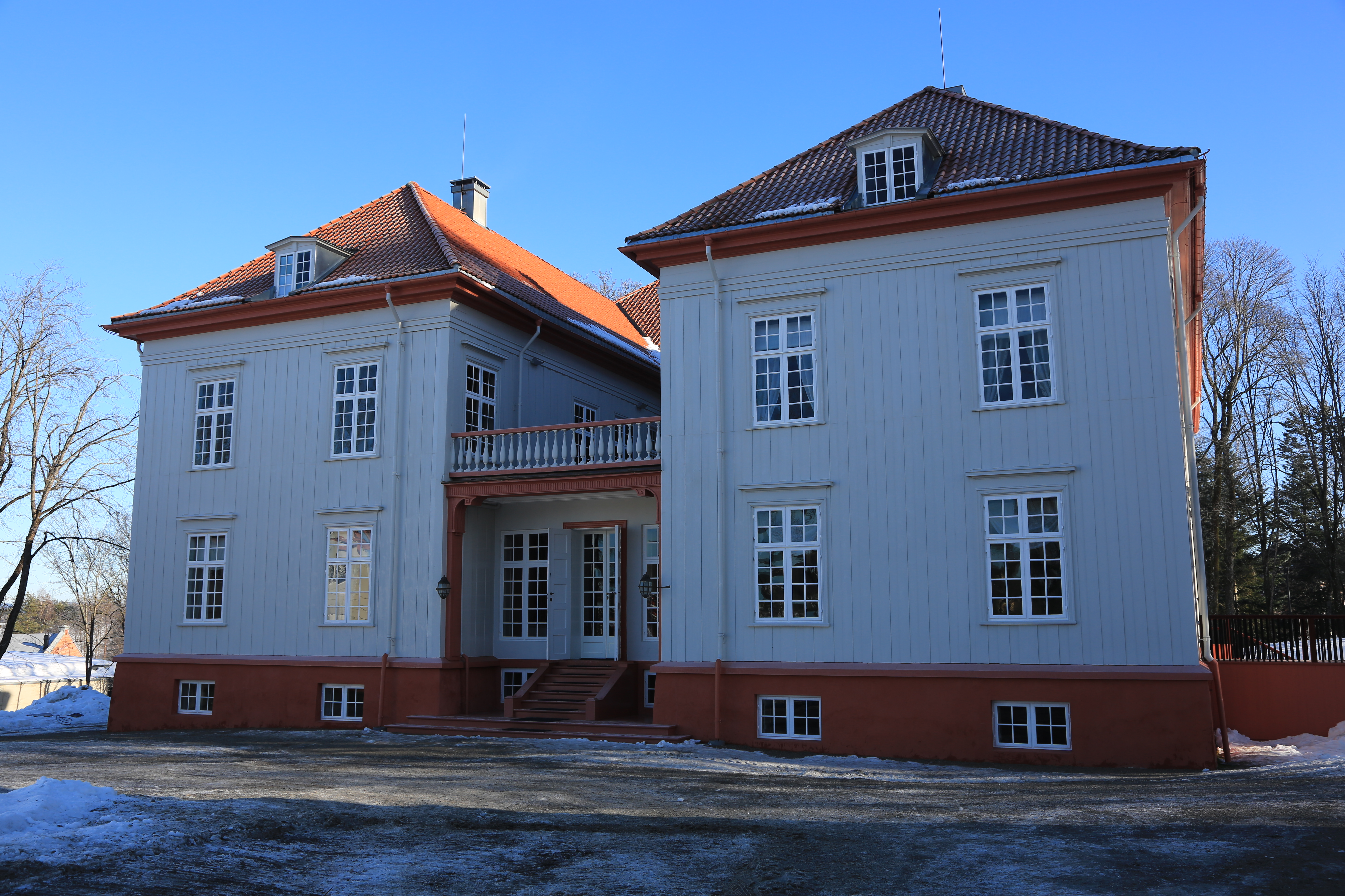 The building where Norways constitution was made in the spring of 1814. Front.